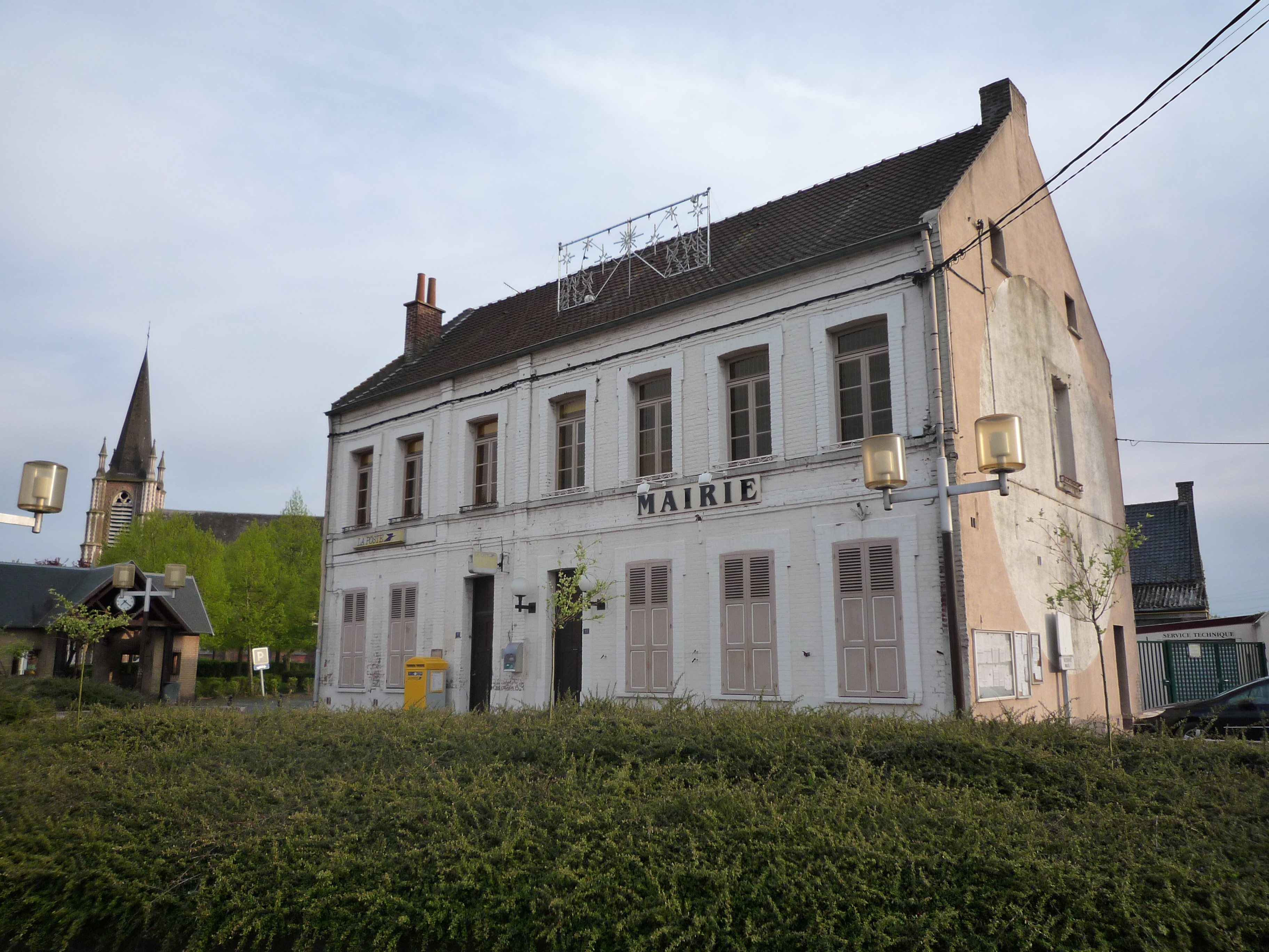 Depicted place: Q55379492